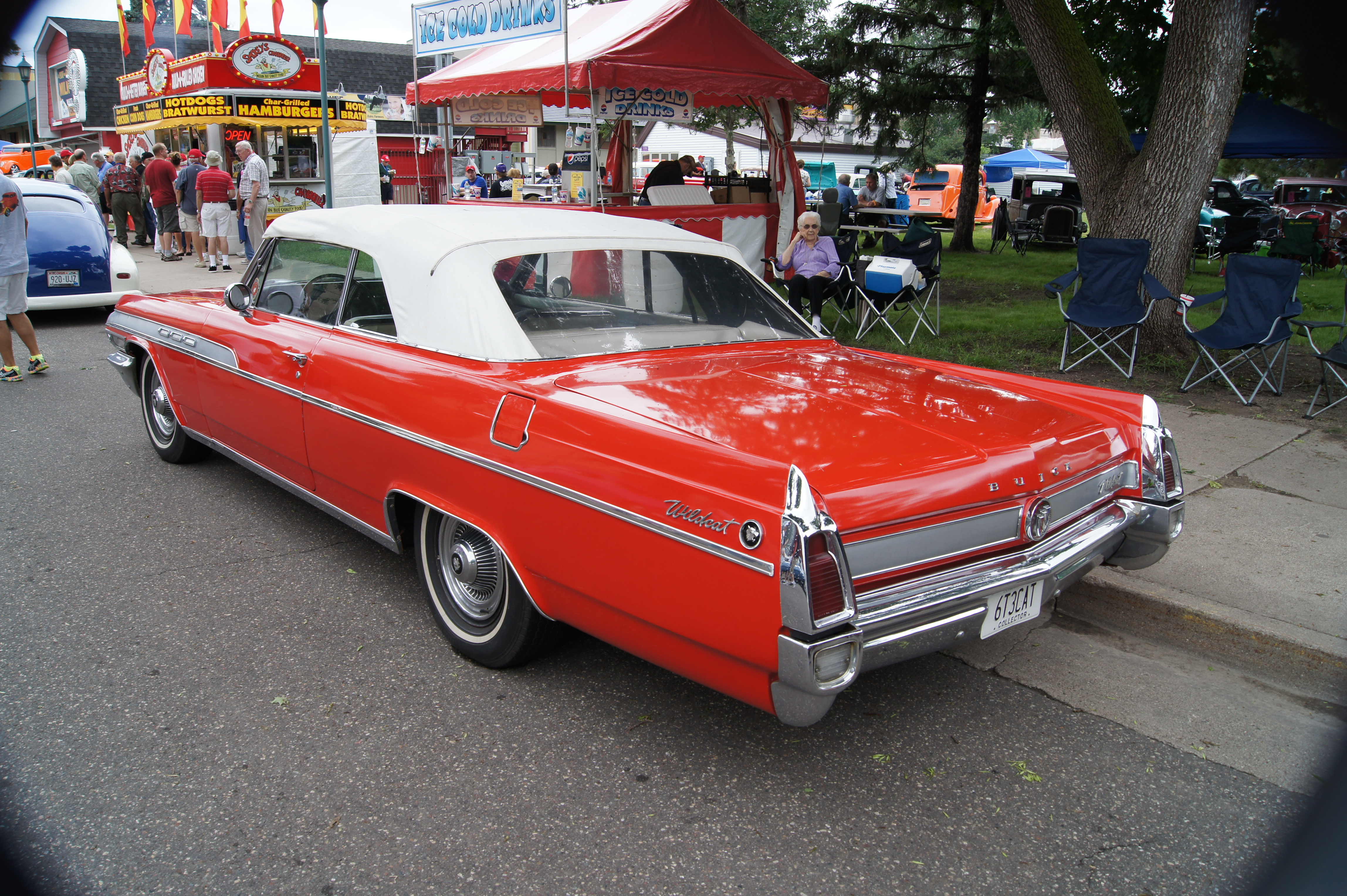 MSRA “BACK TO THE 50′s” 40th ANNIVERSARY June 21-23, 2013 State Fairgrounds St. Paul Minnesota More Car Pictures